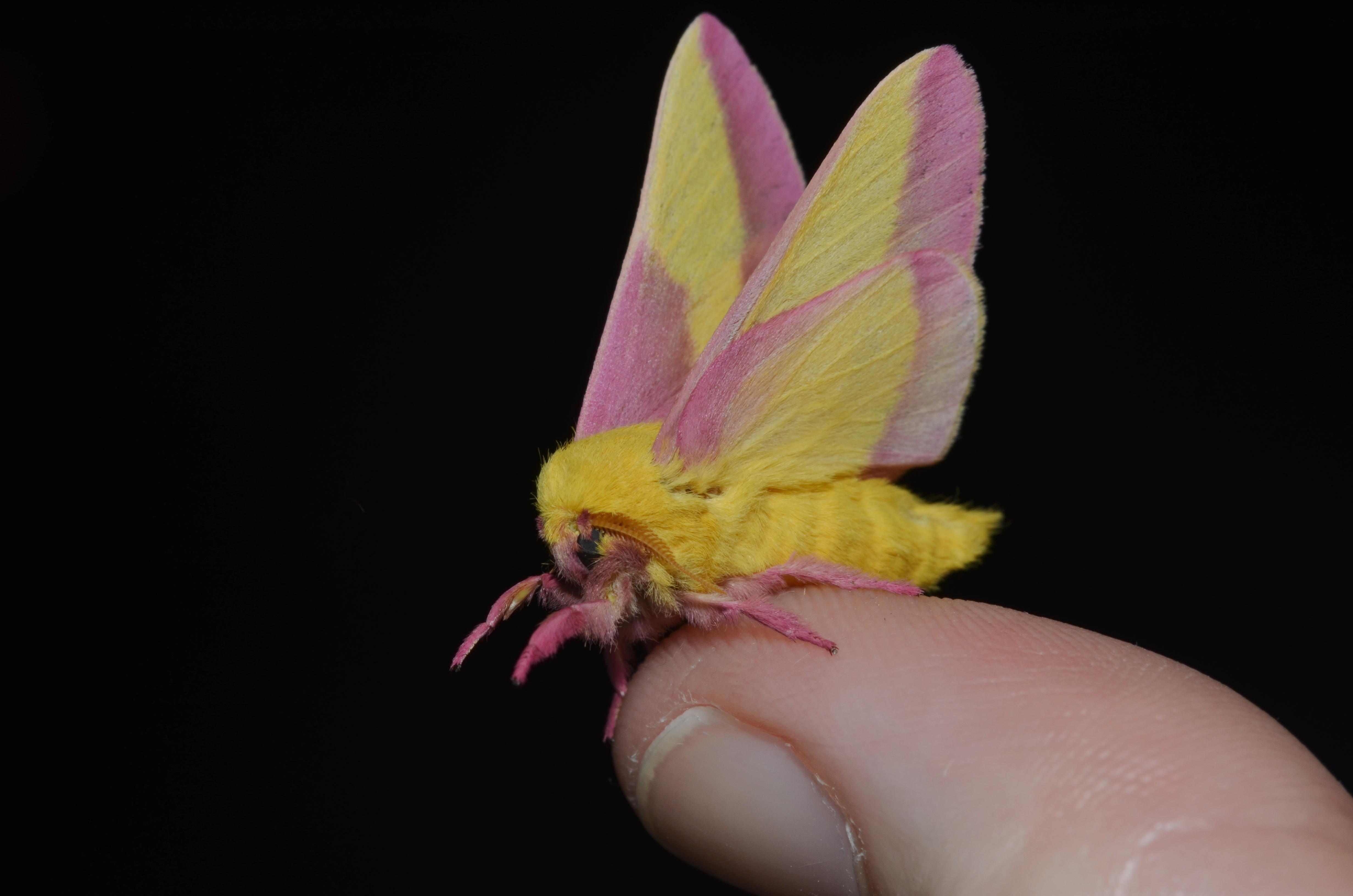 St. Francois State Park 8/7/15